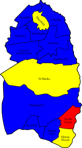 A map of the results of the 2008 Rushmoor Council election. Colour legend by wards won: Liberal Democrats Conservative party Labour party